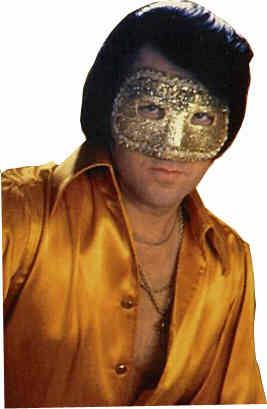 Photo by Shelby Singleton. Promotional photo of Jimmy Ellis portraying Orion. Photo is used with permission by Shelby Singleton of Sun International.